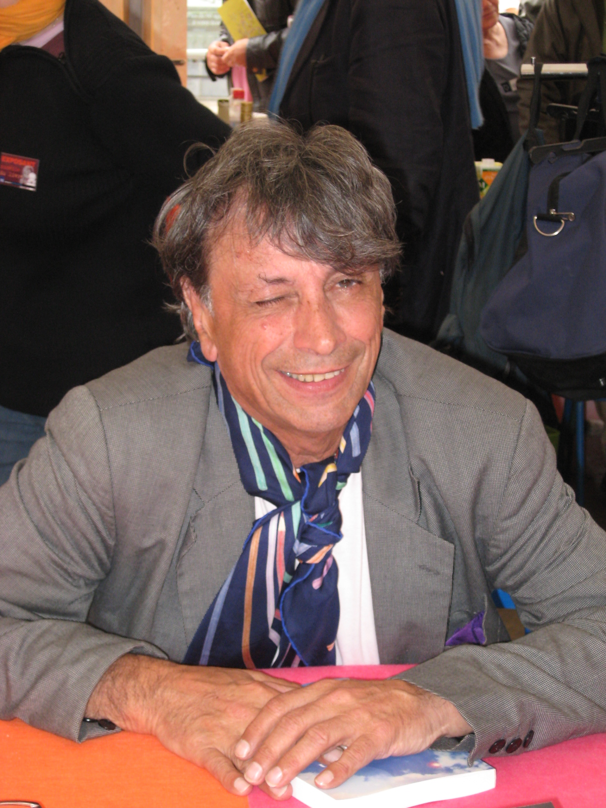 Hervé Vilard